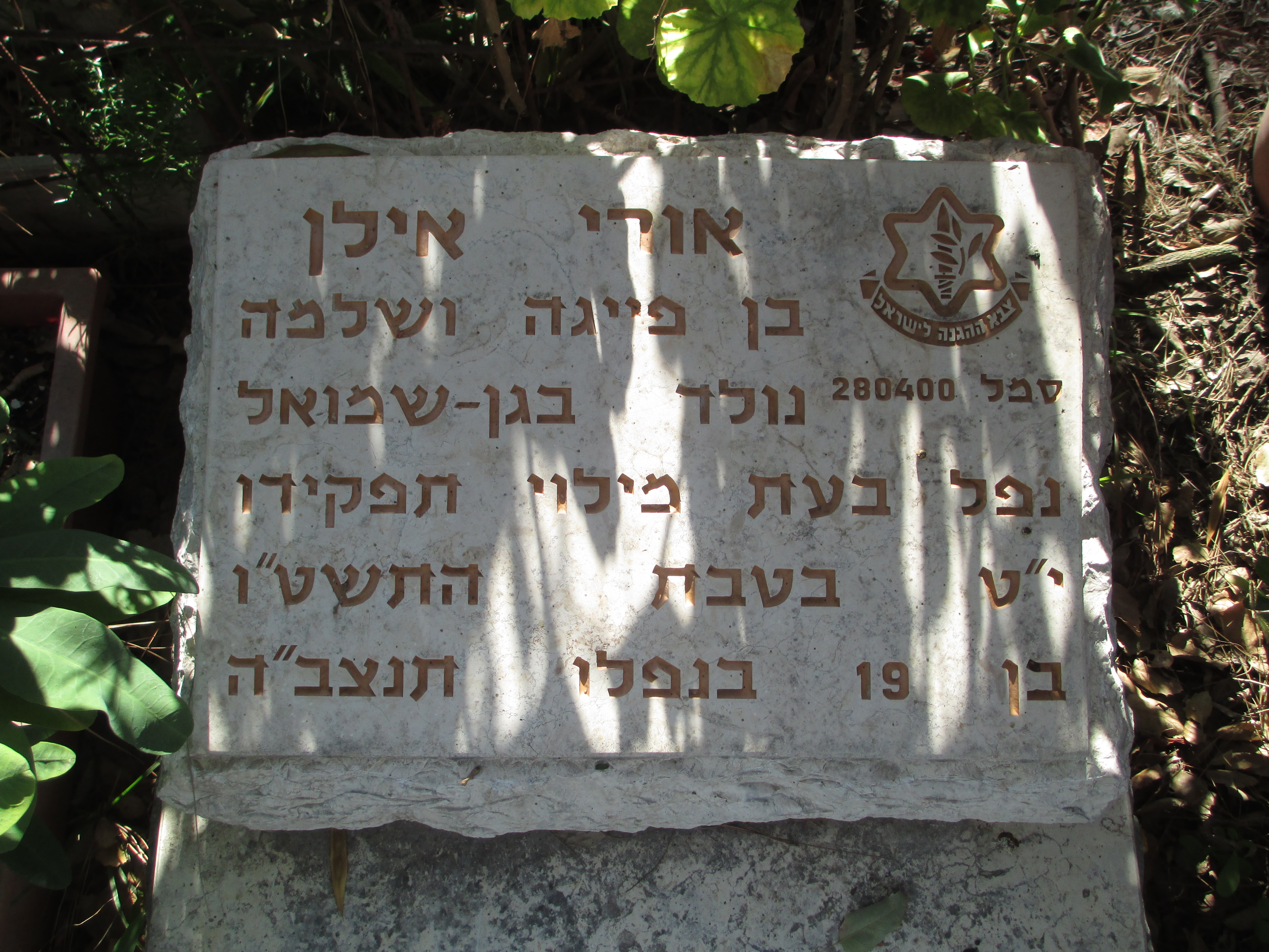 Kibbutz Gan Shmuel